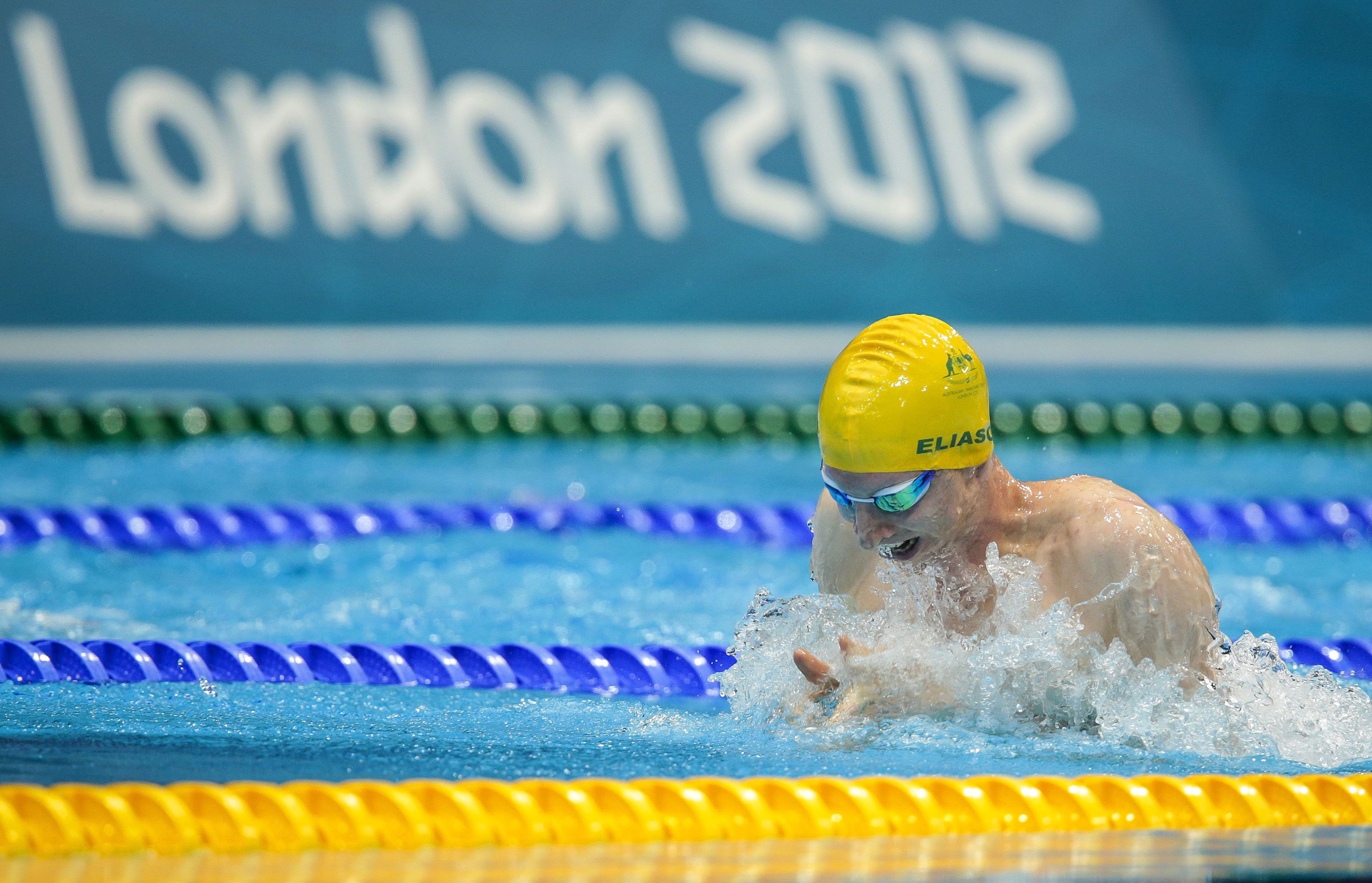 Photograph of Australian Paralympic team member Richard Eliason at the 2012 Summer Paralympic Games in London